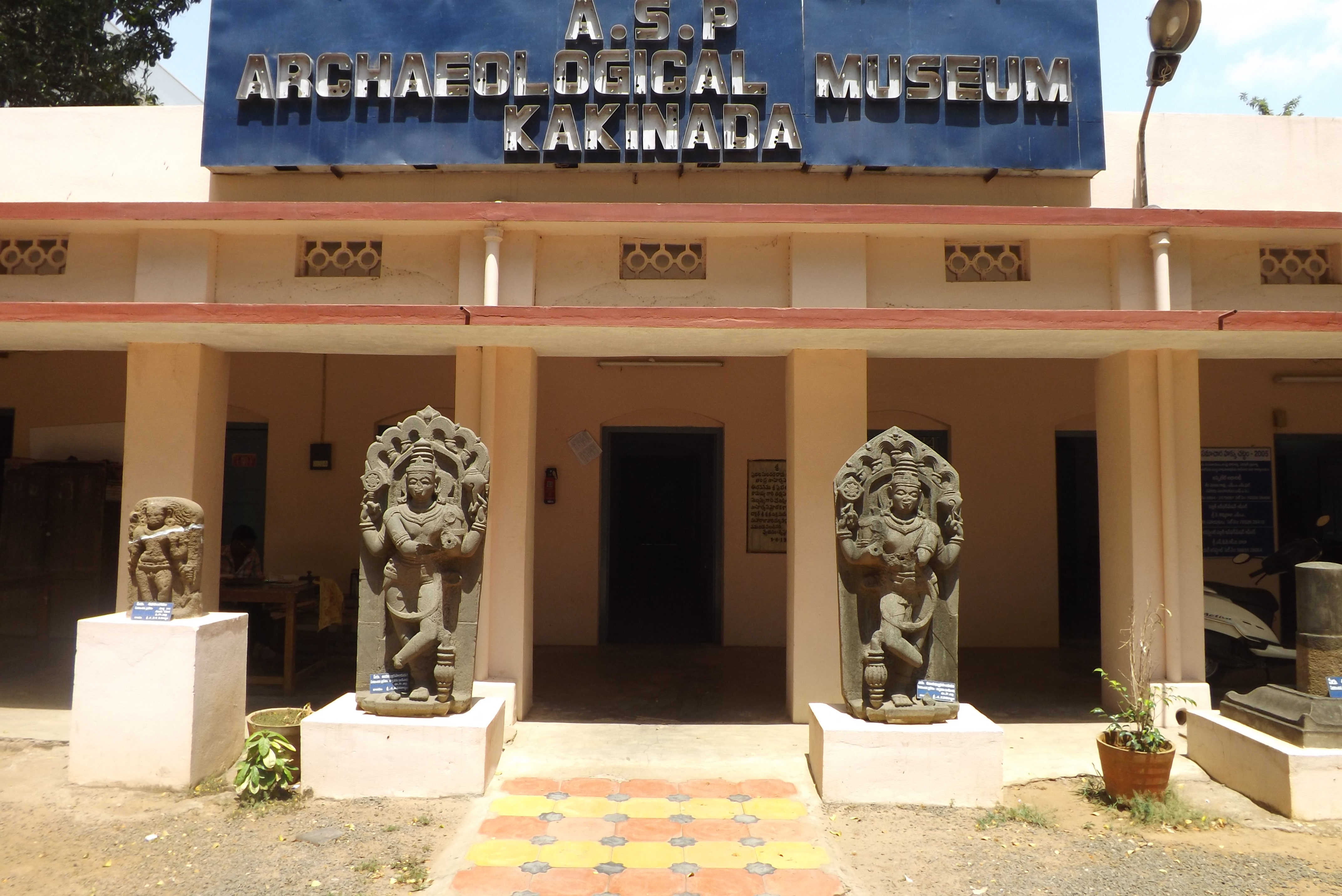 Andhra Sahitya parishat ( ANDHRA SAHITYA PARISHAD GOVERNMENT MUSEUM AND RESEARCH INSTITUTE ) Kakinada